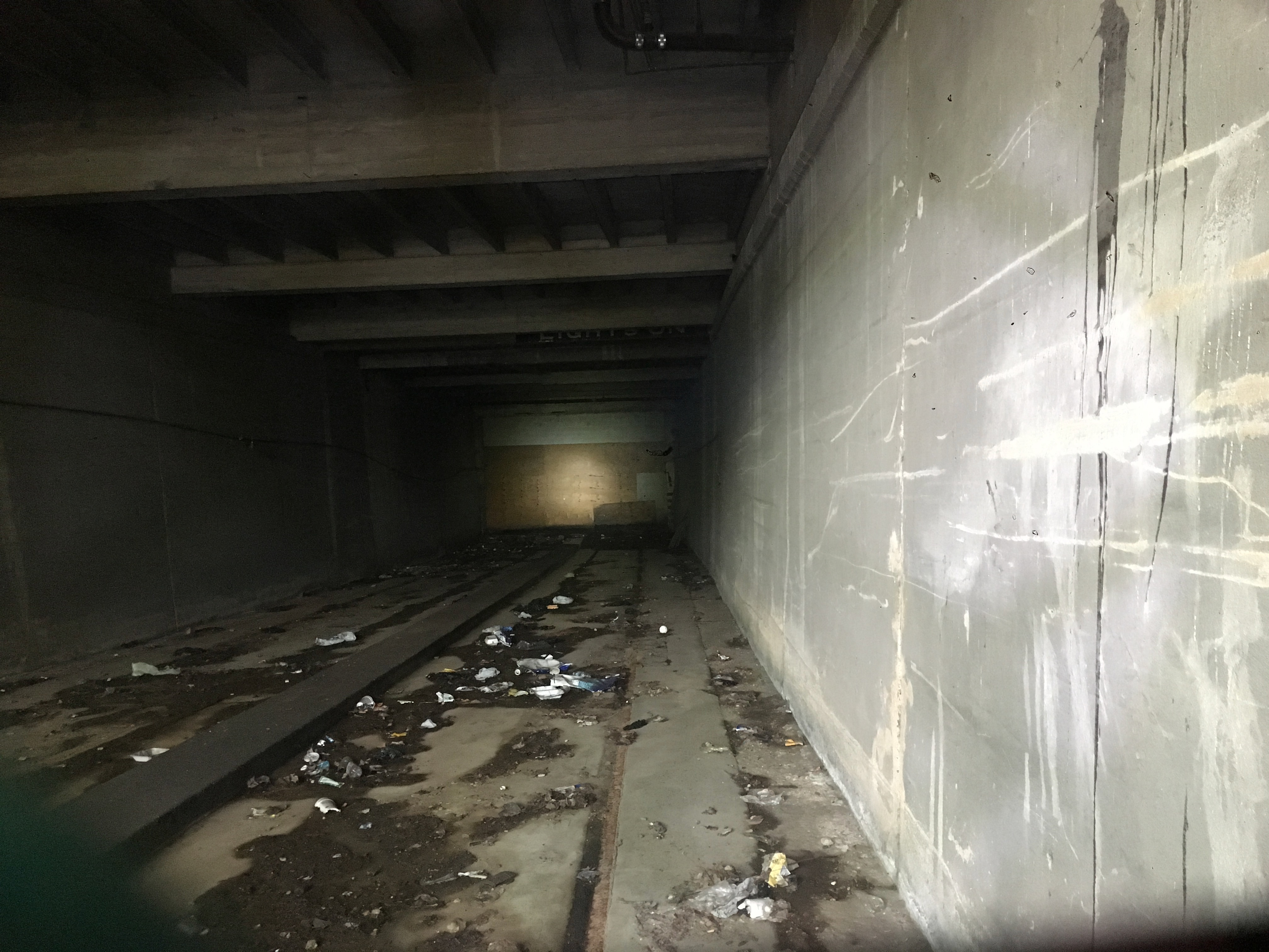 The Cedar street subway portal where it intersects Washington street in downtown Newark. This is a view of the interior showing the intact tracks and in the distance a plywood wall blocking it off.